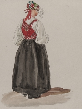 Akvarellerad handteckning av J W Wallander. Kvinnodräkt från Ål, Dalarna. Påskrift på baksidan "Ål 1857". Nordiska museets inventarienummer 57339h